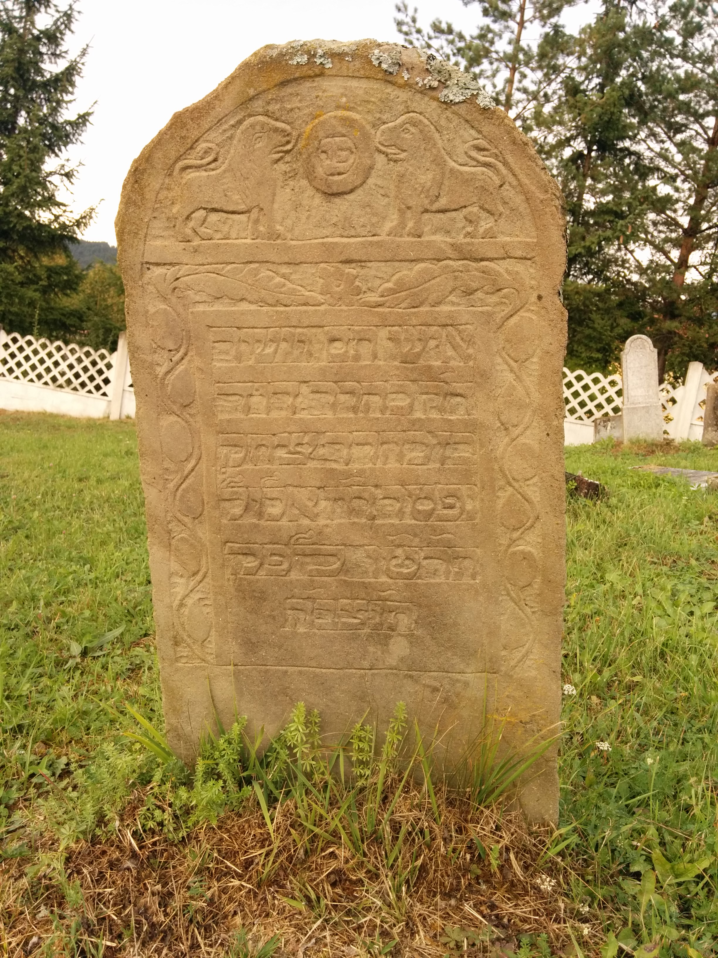 Jewish cemetary in Lipany, Slovakia, September 2018.